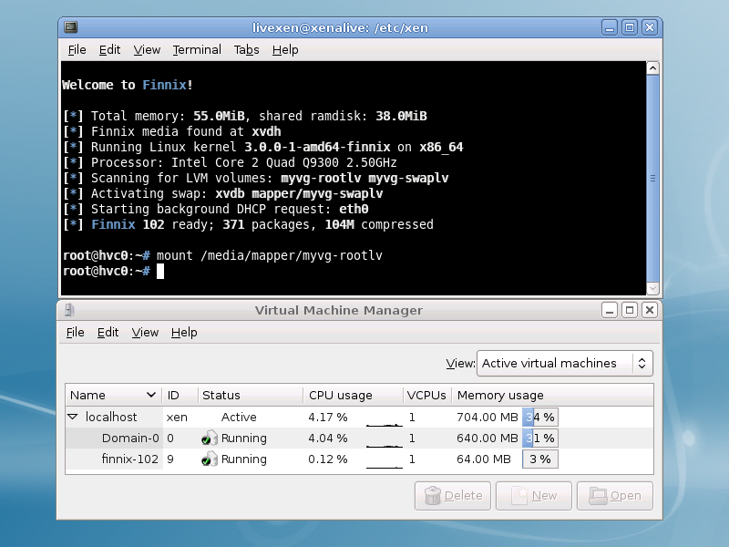 Finnix 102 running as a paravirtualized guest in Xen